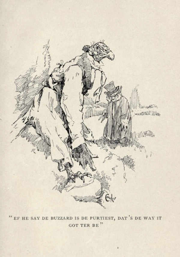 J. M. Condé illustration for "The Most Beautiful Bird" in Joel Chandler Harris, Uncle Remus's Home Magazine, ca. 1918.